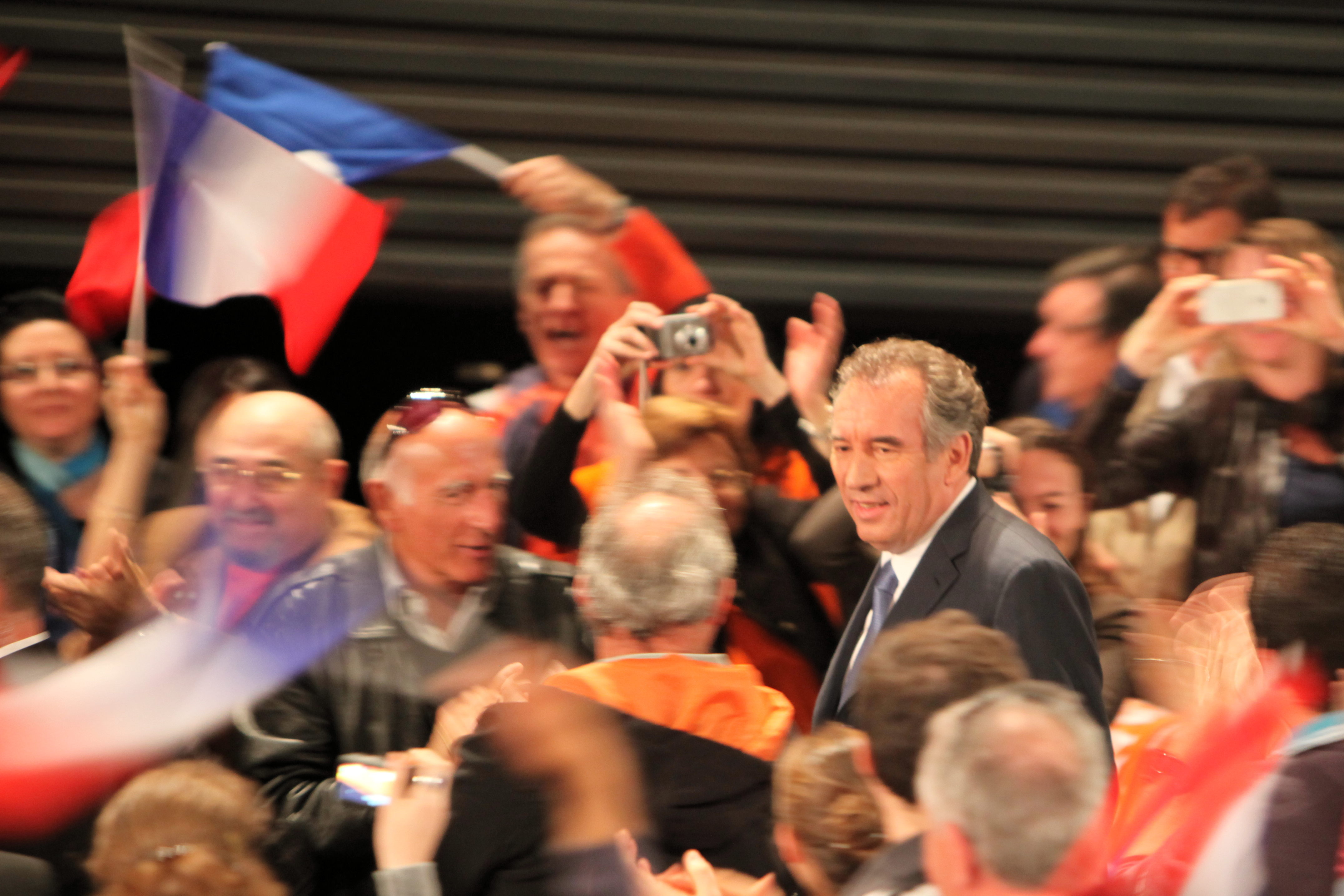 François Bayrou at the meeting at Silo, Marseille